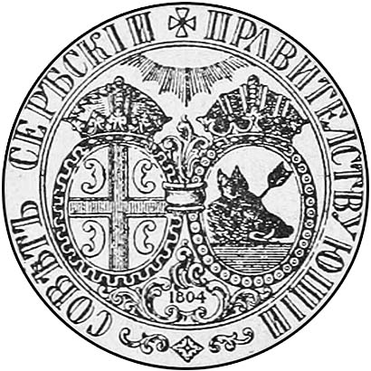 Seal of the Praviteljstvujušči sovjet serbski (Правитељствујушчи совјет сербски; Slaveno-Serbian: Правителствующи совѣт сербскій)